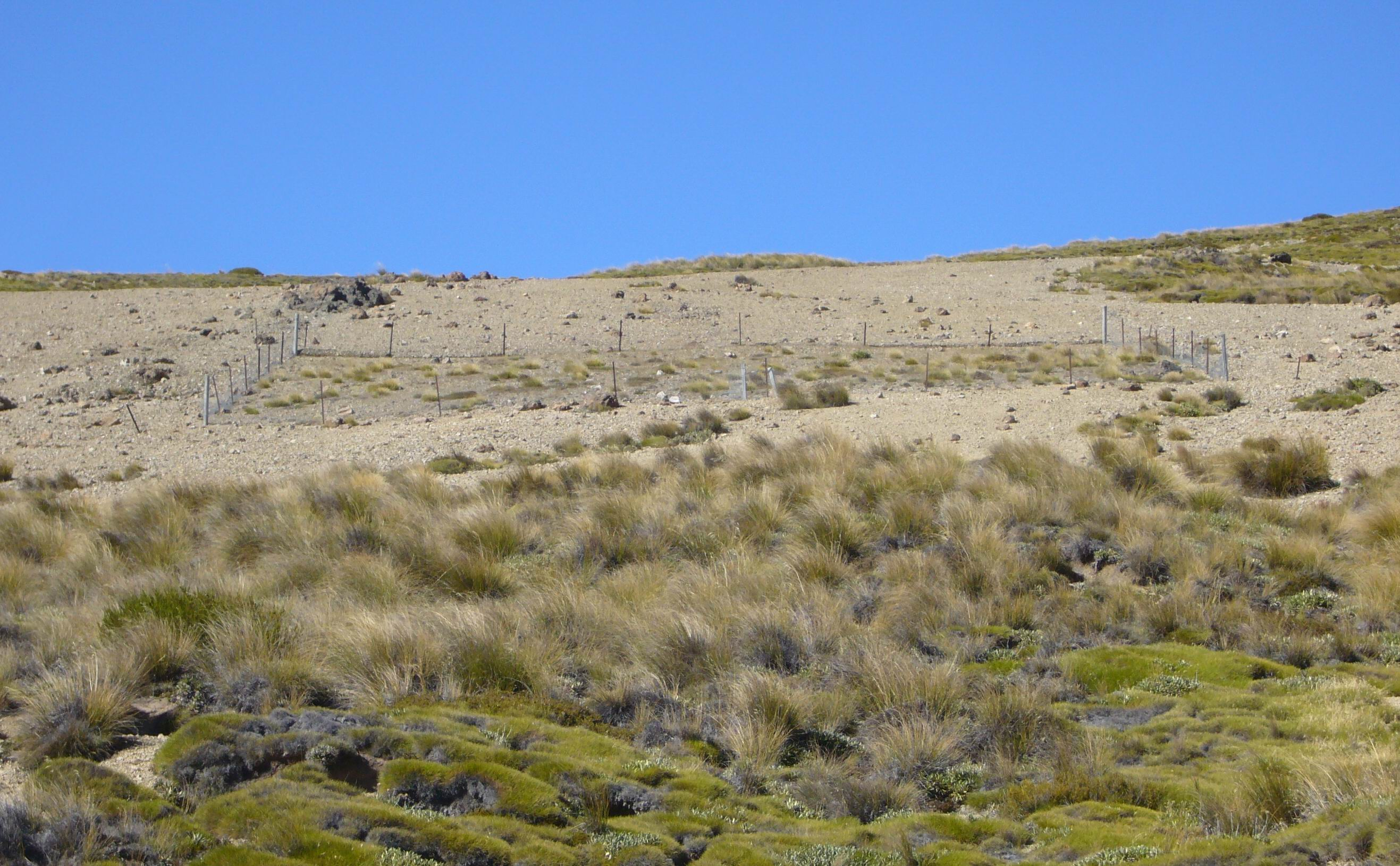 Exclusion plot on Island Saddle on the Hanmer - Rainbow Road in New Zealand